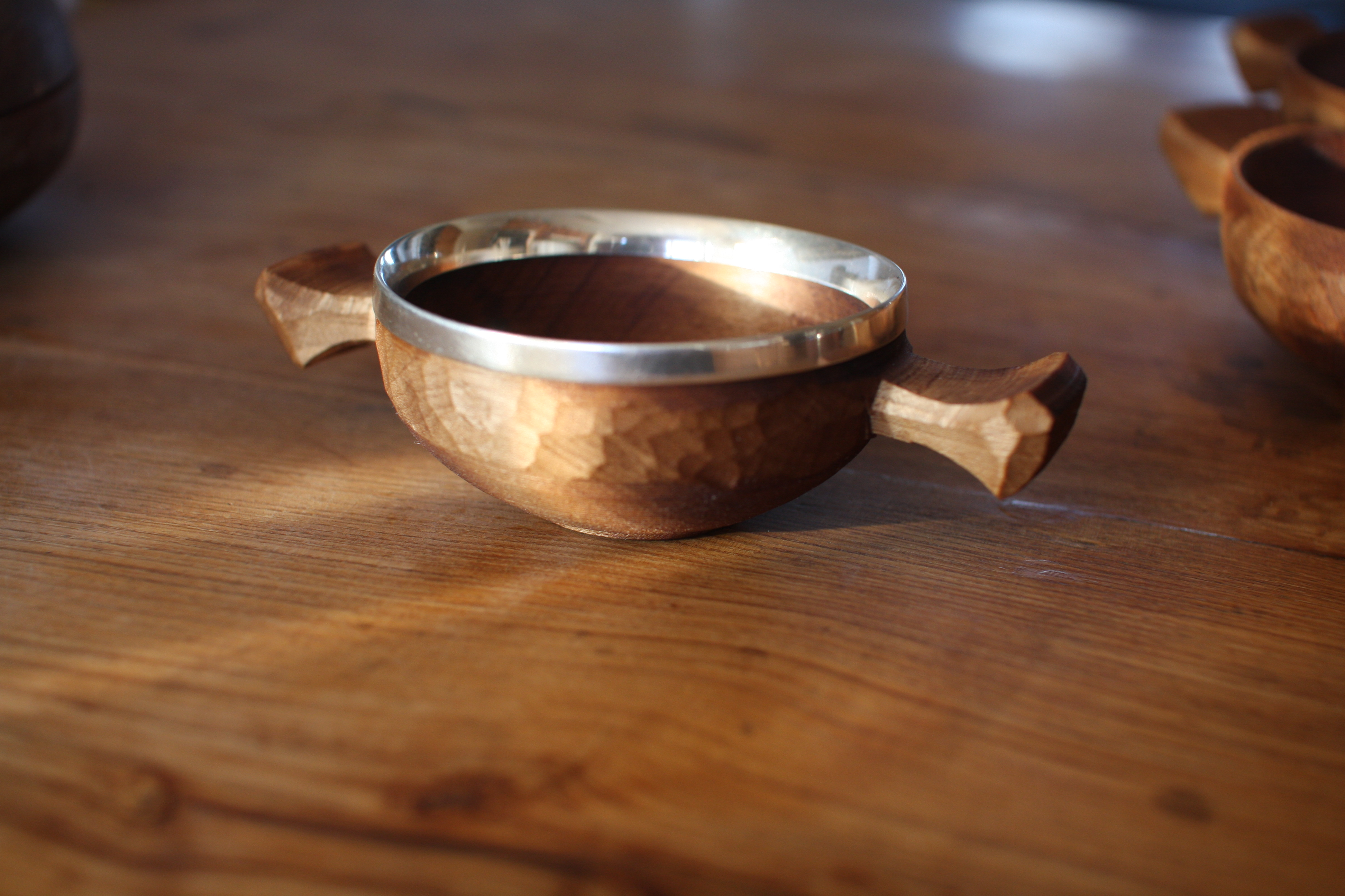 quaich by Robin Wood. maple and silver.